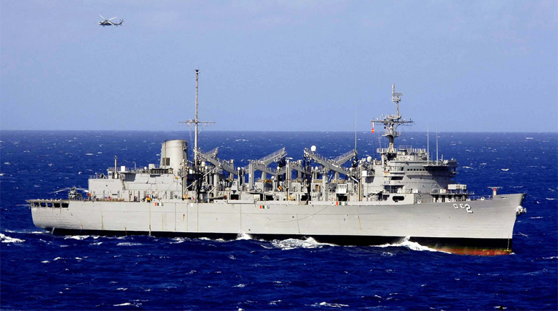 050217-N-6074Y-108 Philippine Sea (17 February 2005) - Following a vertical replenishment, the fast combat support ship USS Camden separates from her position alongside the Nimitz class aircraft carrier USS Abraham Lincoln. The fast combat support ship (AOE) is the Navy’s largest combat logistics ship. The AOE has the speed and armament to keep up with the carrier strike groups and has the capability to carry more than 177,000 barrels of oil, 2,150 tons of ammunition, 500 tons of dry stores and 250 tons of refrigerated stores. Lincoln and embarked Carrier Air Wing Two (CVW-2) are currently deployed to the Western Pacific Ocean.